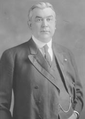 Former United States Representative from Alabama Fred Leonard Blackmon.